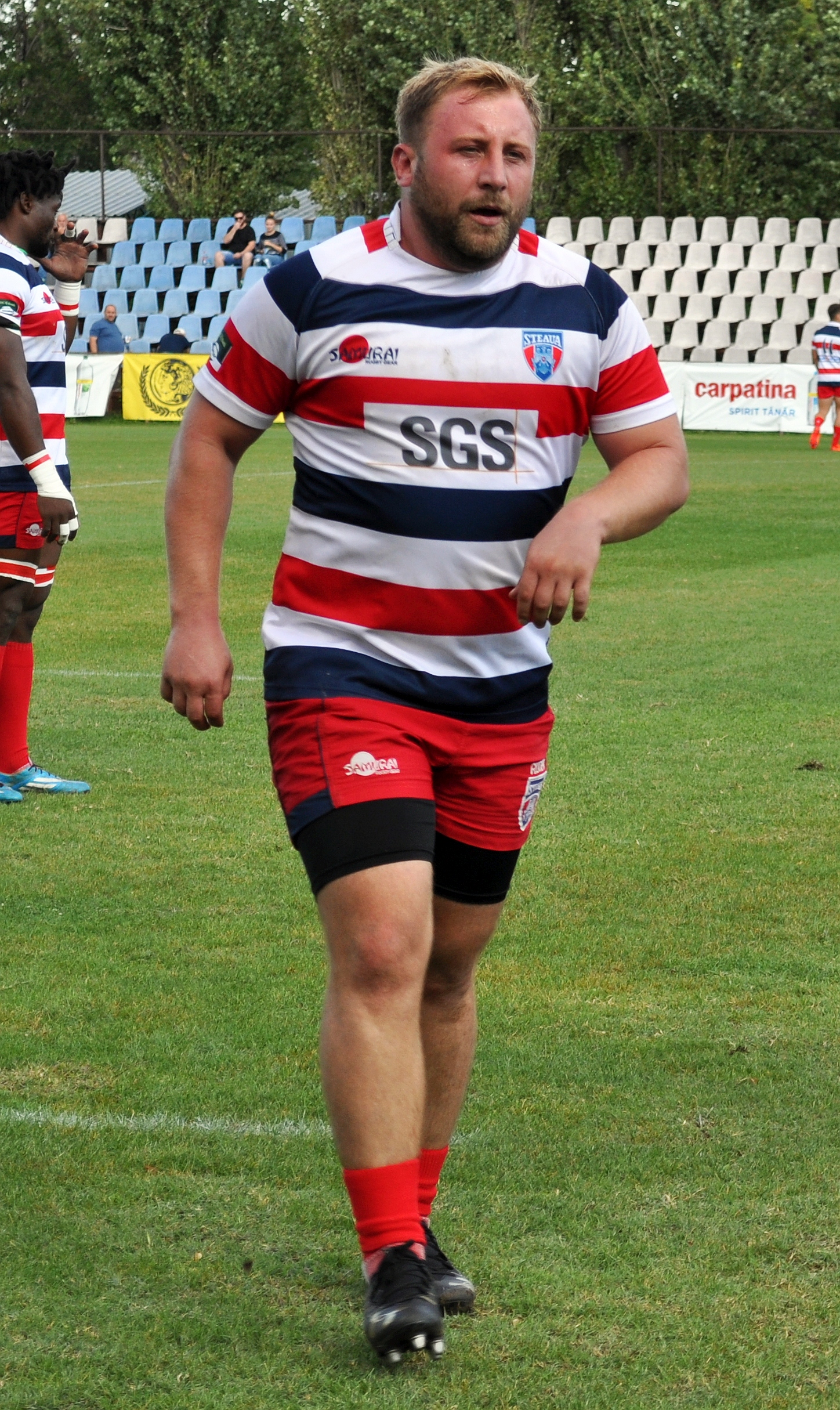 Romanian rugby union football player Cristian Pană, player of CSA Steaua București rugby club seen in a match against CSM Baia Mare in Round 5 of Romanian Rugby SuperLiga in September 2017